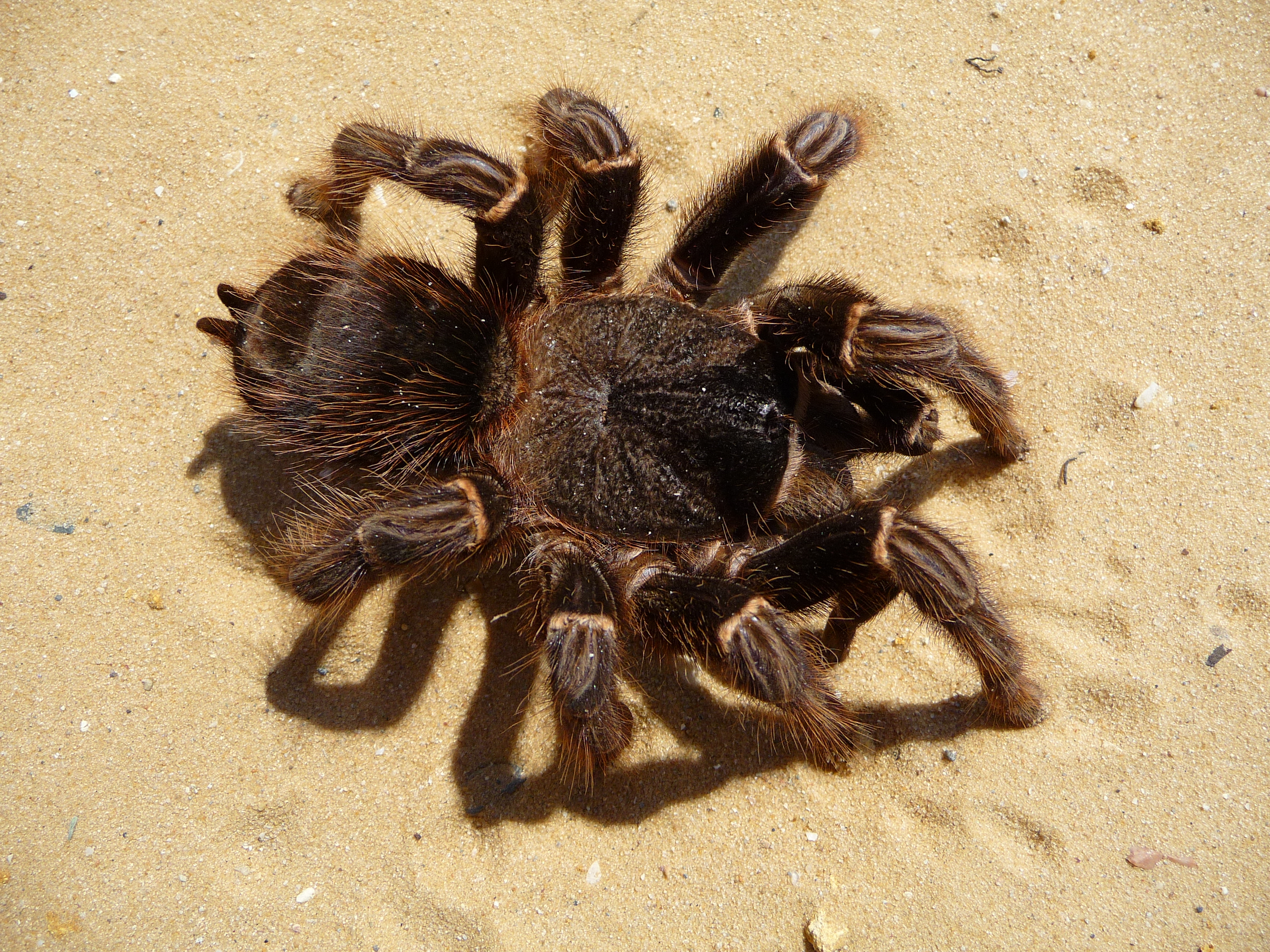 Brazilian salmon pink tarantuala (aslo birdeater) female (Lasiodora parahybana)